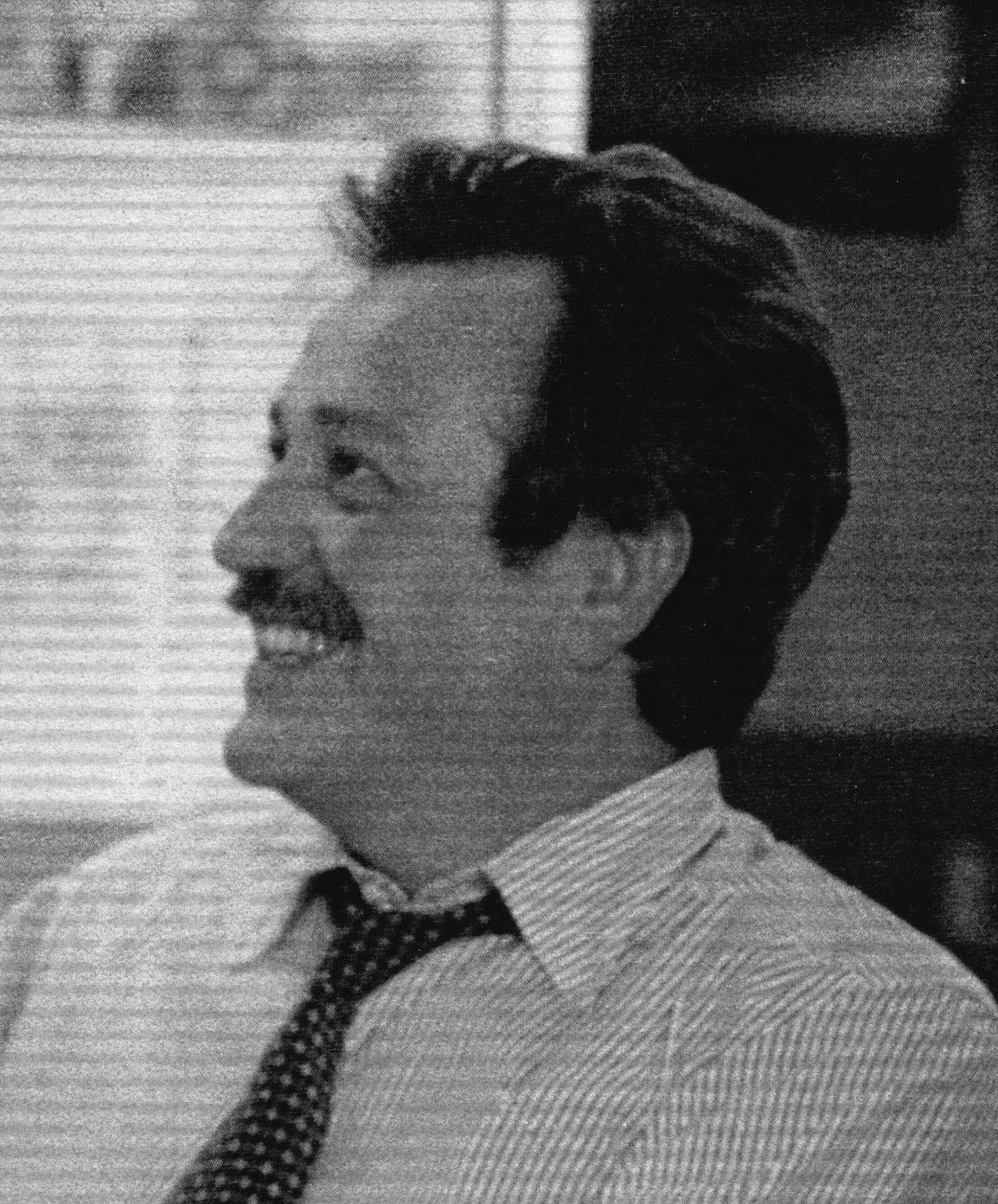 Eduardo Alejandro Zemborain